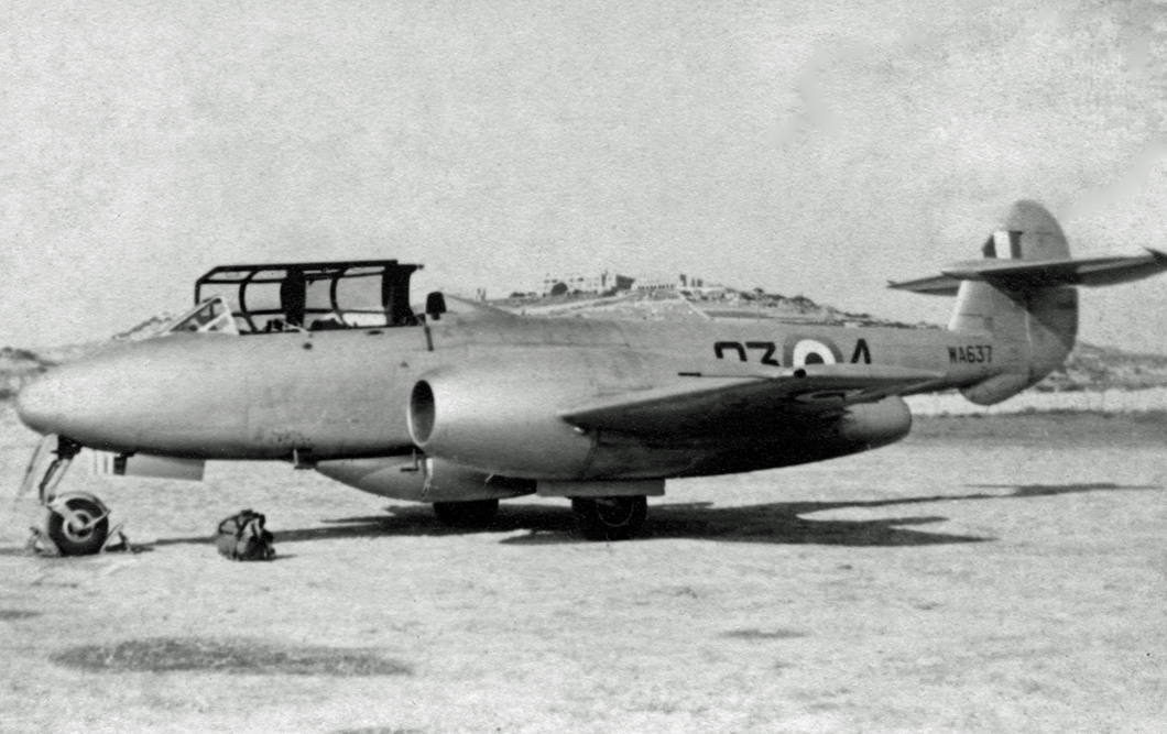 Gloster Meteor T.7 of 613 (City of Manchester) Squadron RAF at RAF Ta Kali, Malta, in 1952.